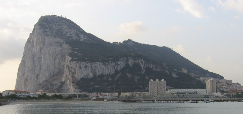 Gibraltar Rock - view from La Línea de la Concepción